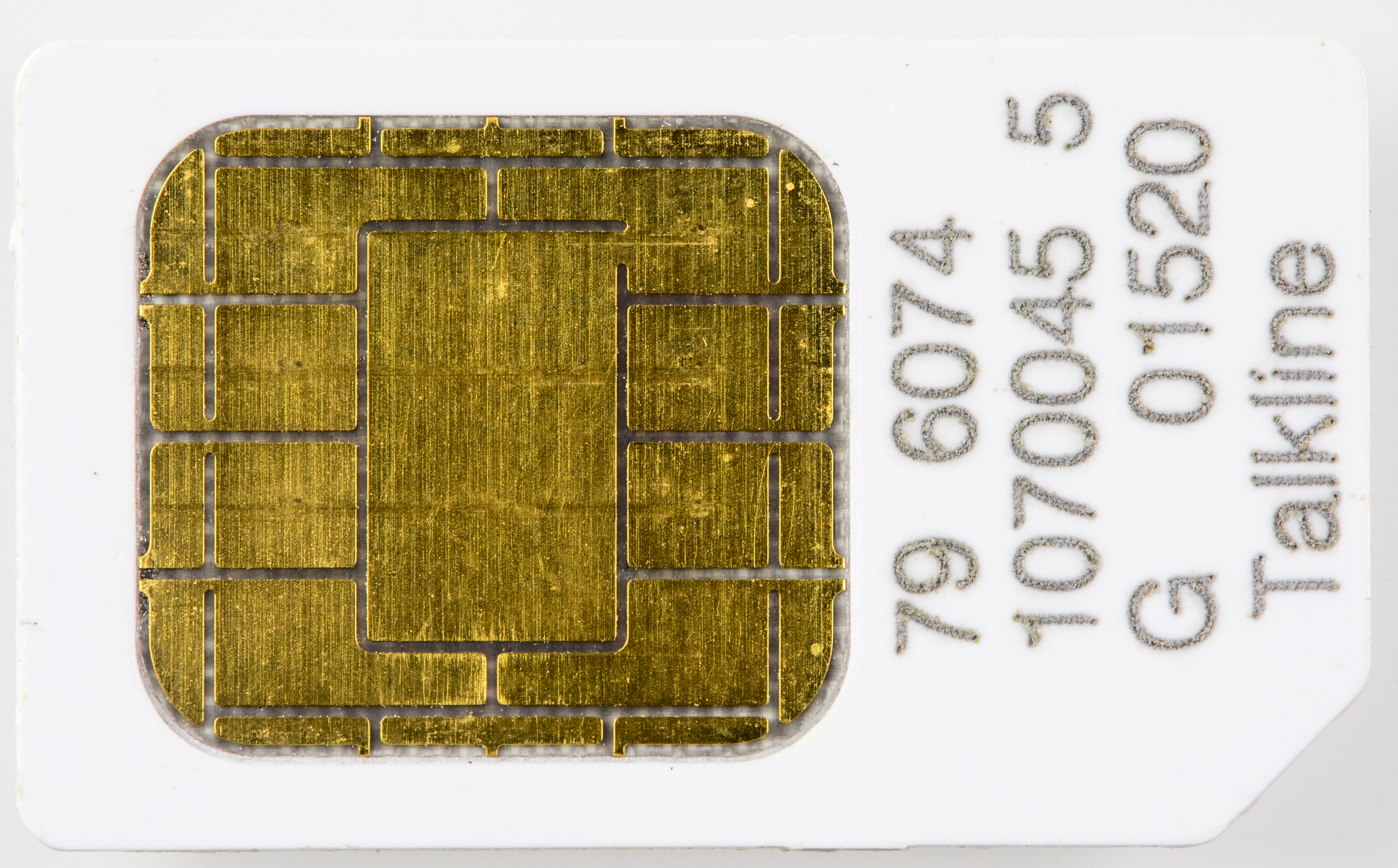 Talkline SIM card